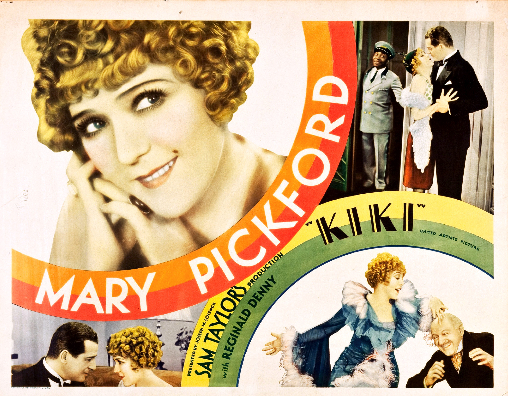 Poster for the American comedy film Kiki (1931). The item has no copyright markings on it as can be seen in the link above. At bottom left is Country of Origin USA.